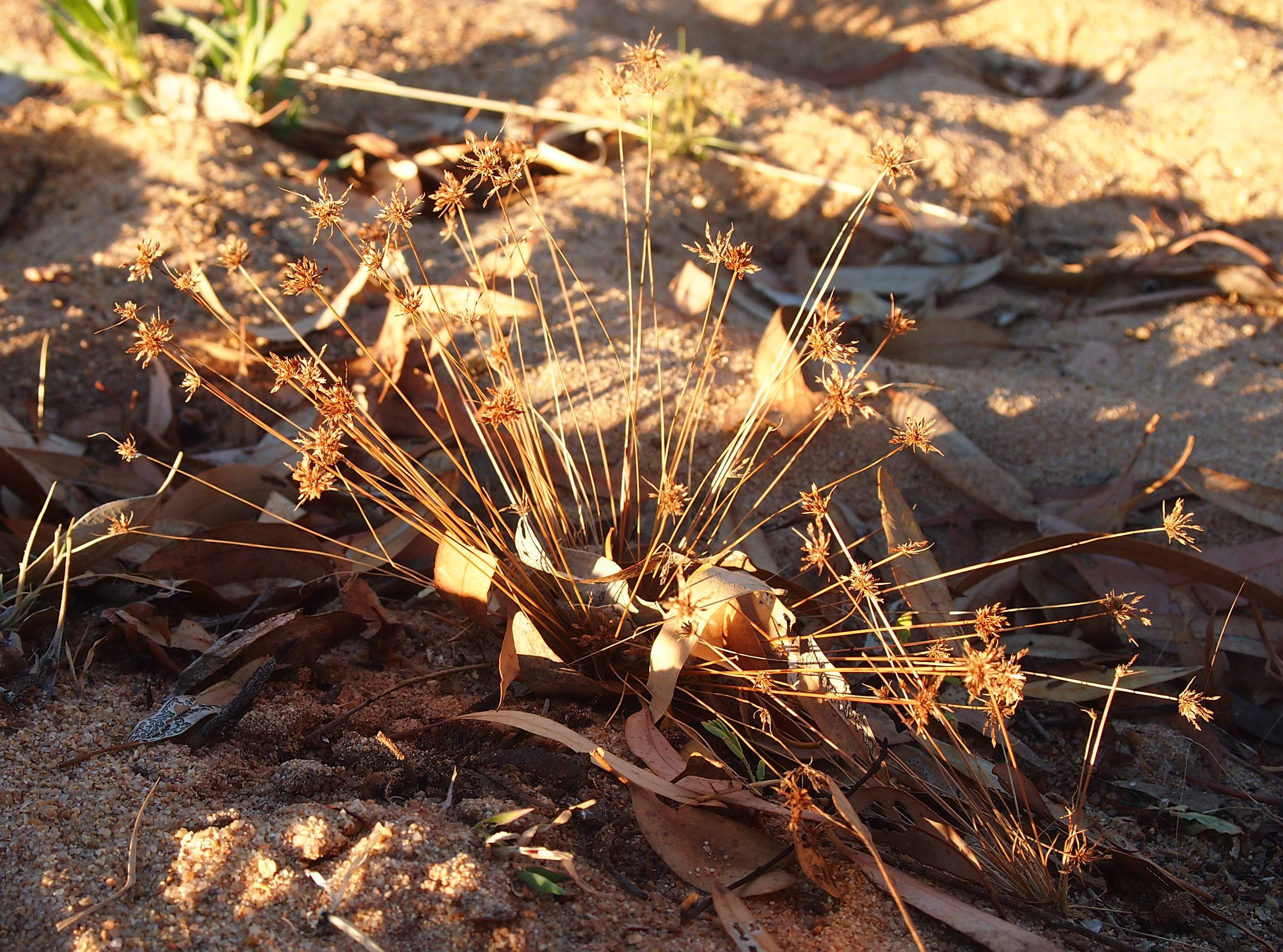 Bulbostylis barbata